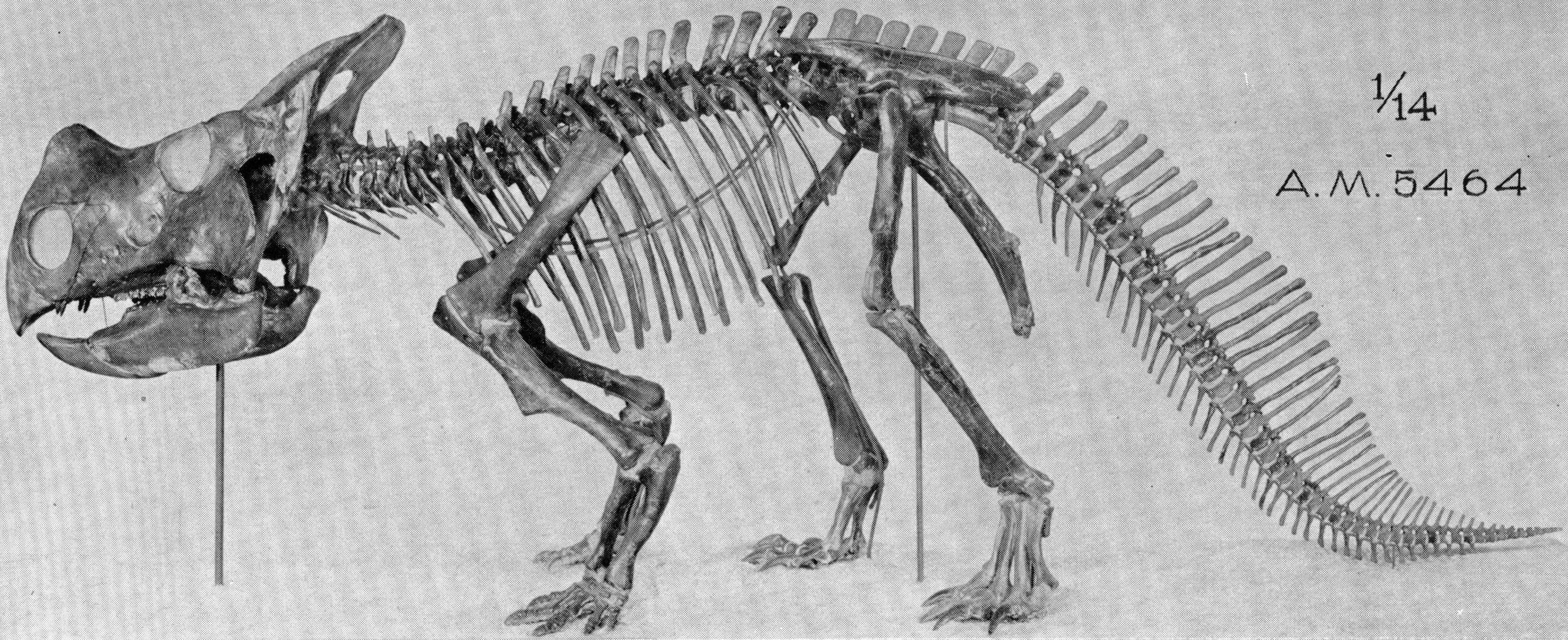 Mounted Montanoceratops cerorhynchos (formerly Leptoceratops cerorhynchos) skeleton.